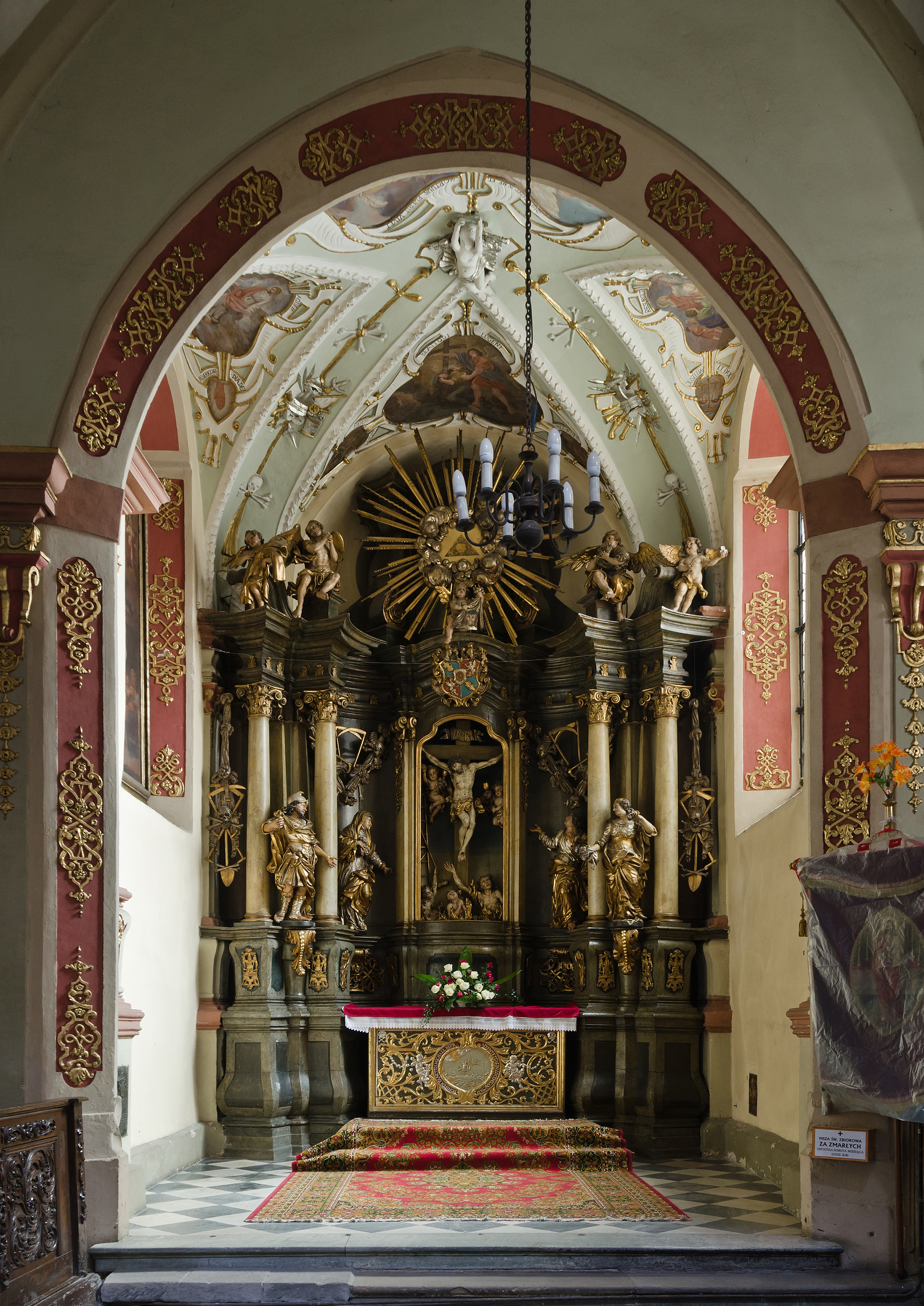 Church of the Assumption in Kłodzko